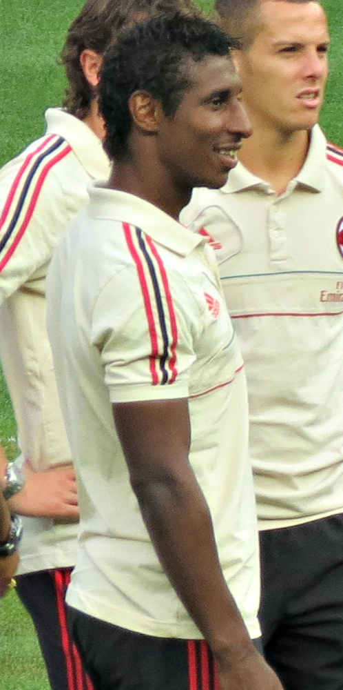 Massimiliano Allegri with players of AC Milan